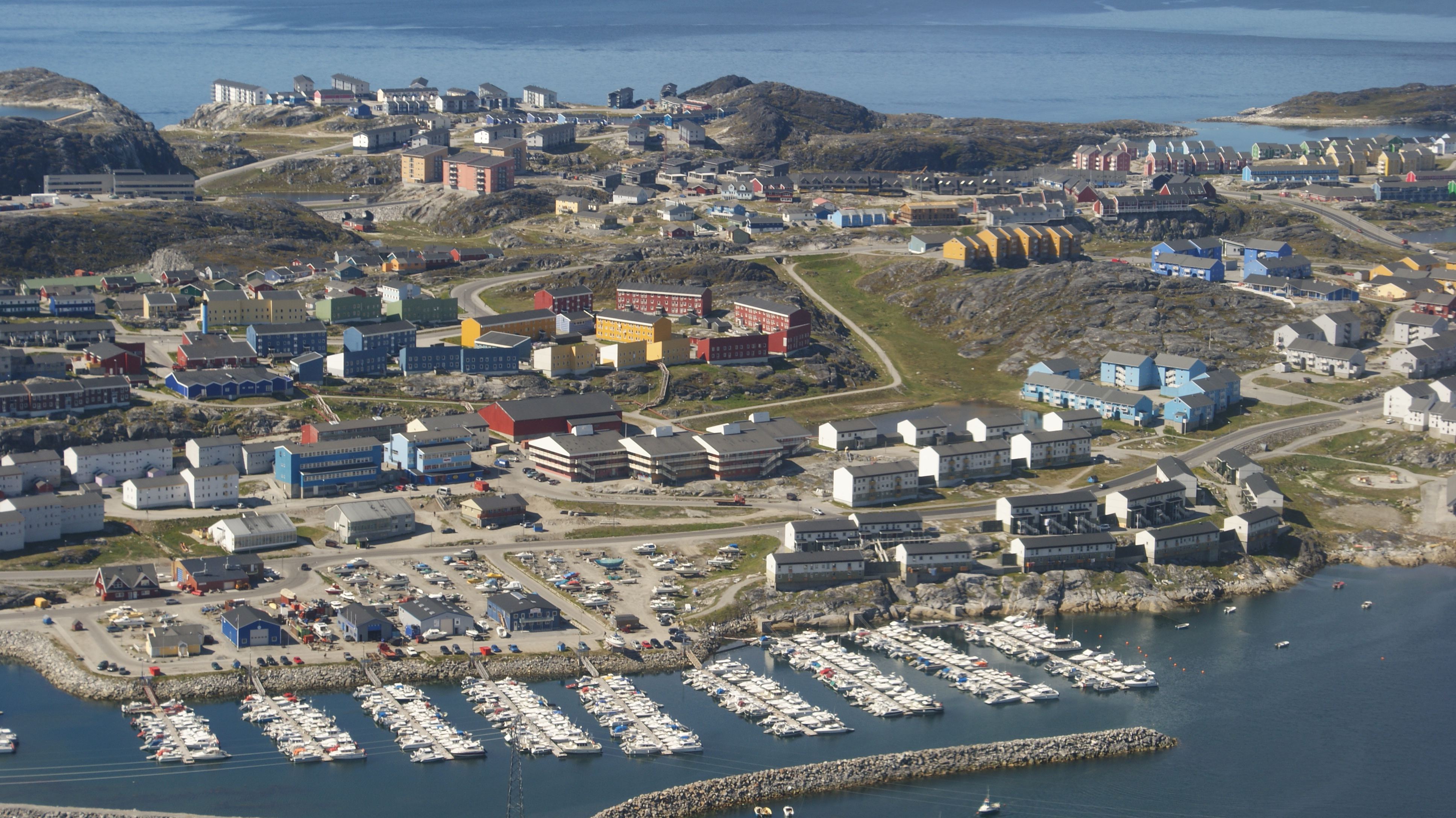 Aerial view of the Nuussuaq district of Nuuk, the capital of Greenland. Photographed from the Air Greenland de Havilland Canada Dash-7 during the Sisimiut-Nuuk flight.